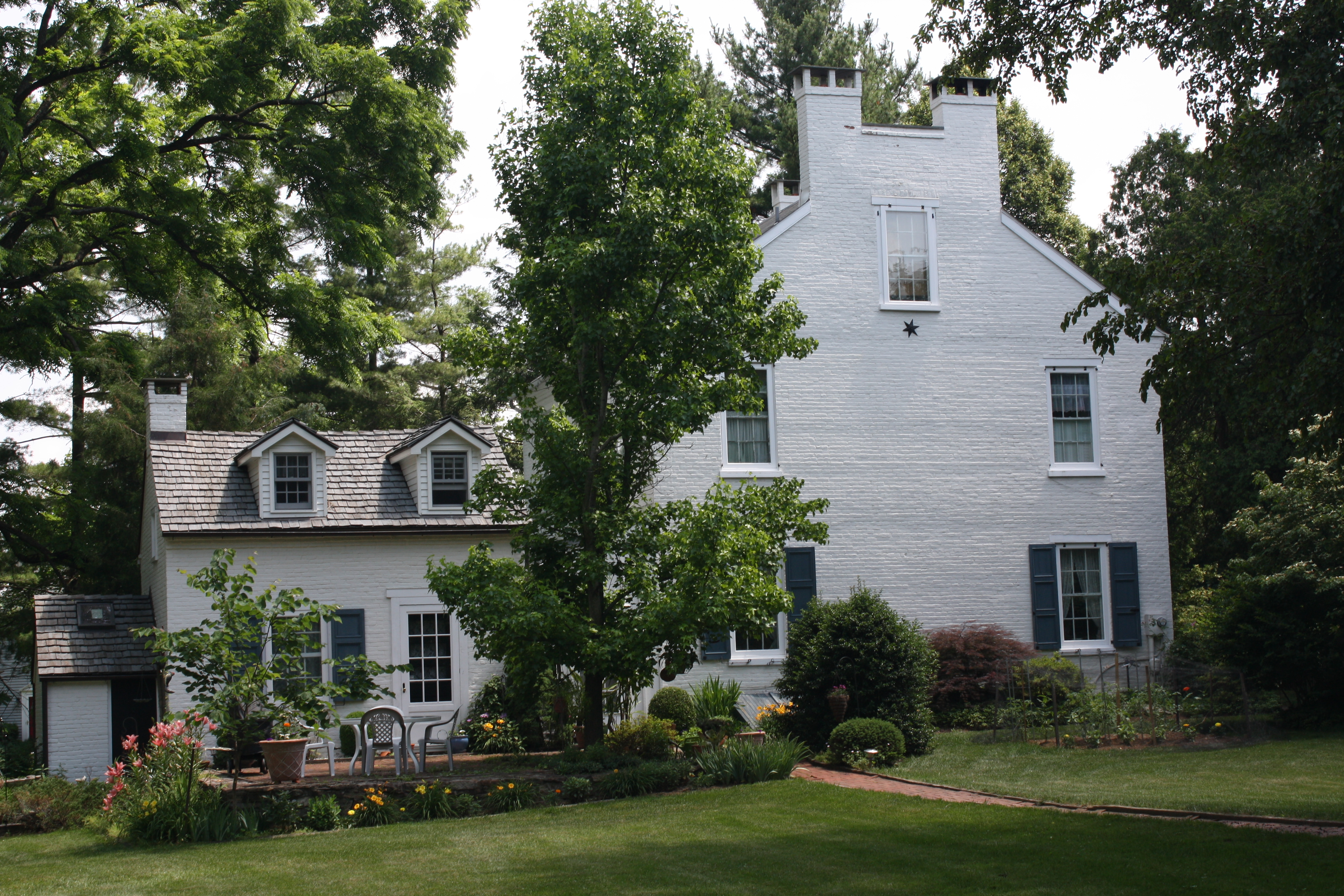 Kemmerer House is a historic home located at Emmaus, Lehigh County, Pennsylvania. It was built between 1840 and 1850. Also on the property is a Pennsylvania-German forbay barn.